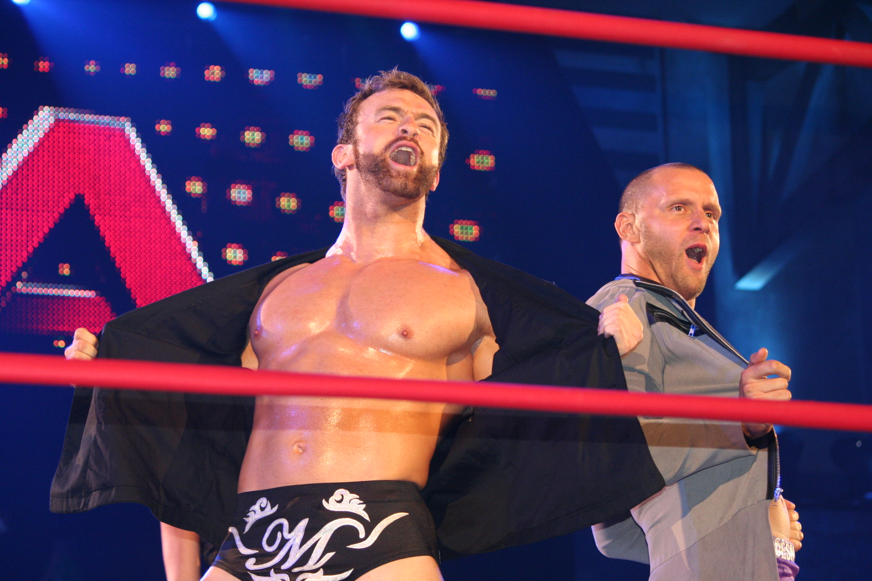 Professional wrestlers Magnus and Desmond Wolfe at a TNA Impact! taping